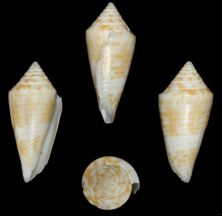 Conus paraguana Petuch, 1987; family Conidae; specimen at the Smithsonian Institution